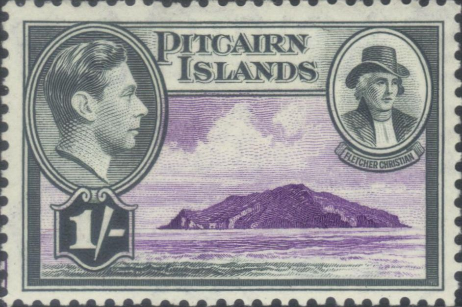 Pitcairn 1940 07